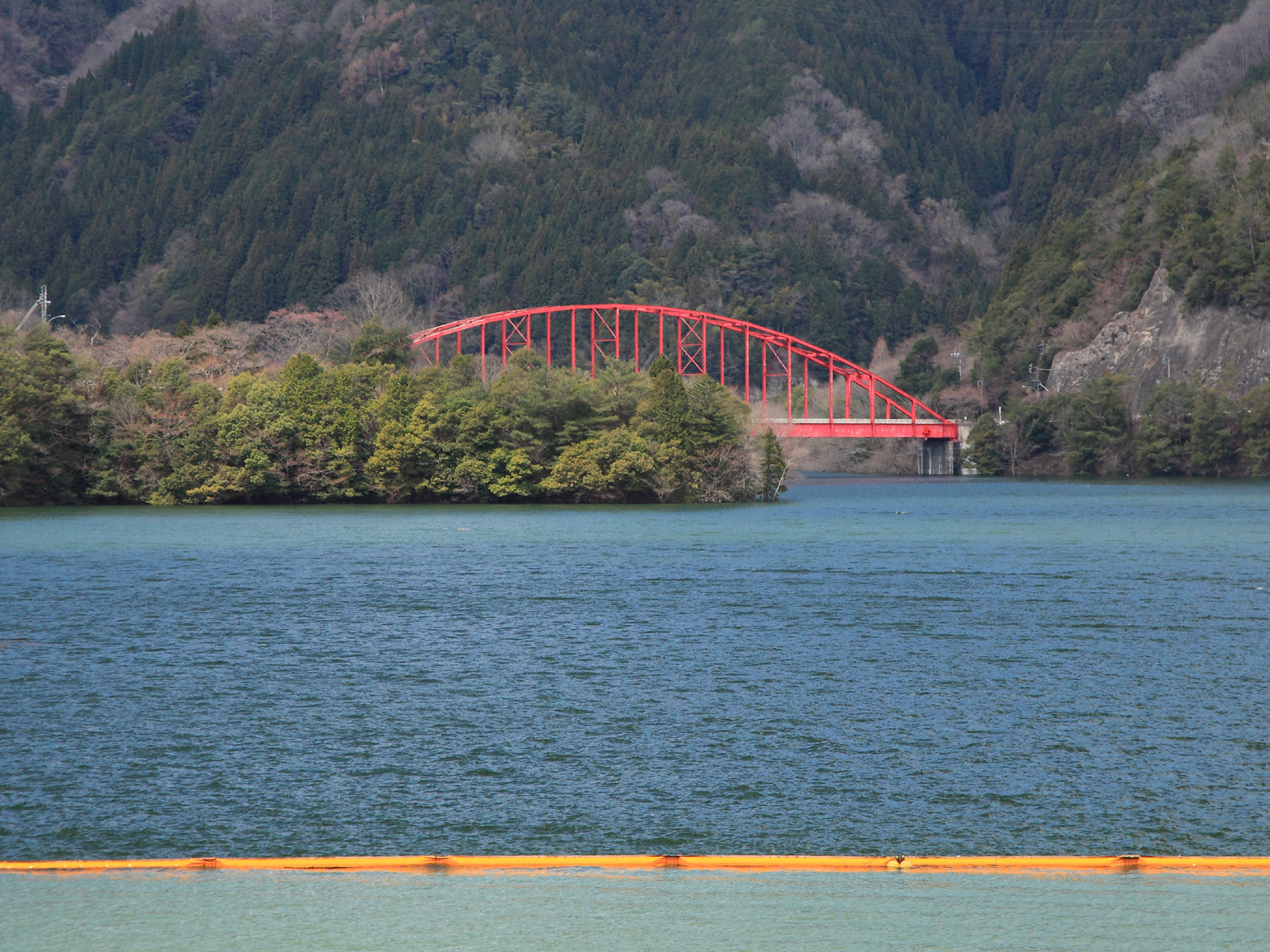 The Asahi Bridge (Asahi ohashi) on the Aichi Prefectural Road Route 356